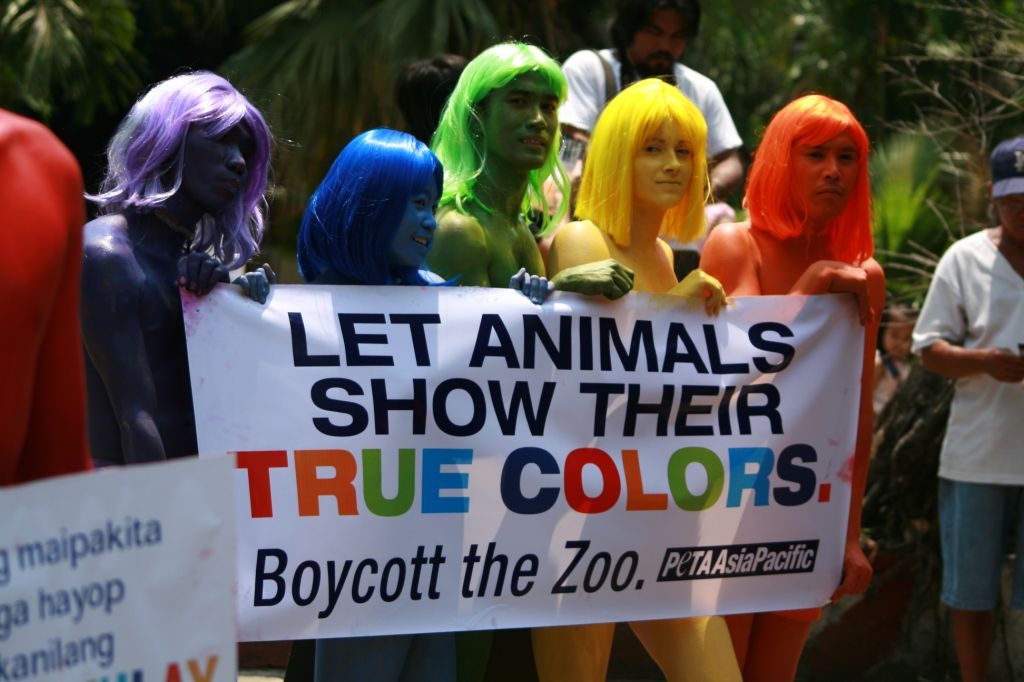 PETA AsiaPacific anti-zoo demonstration